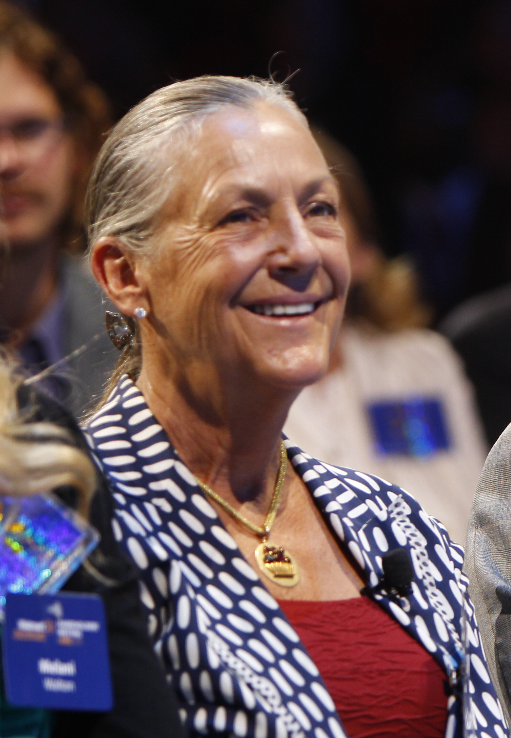 Alice Walton in attendance at the 2011 Walmart Shareholders Meeting